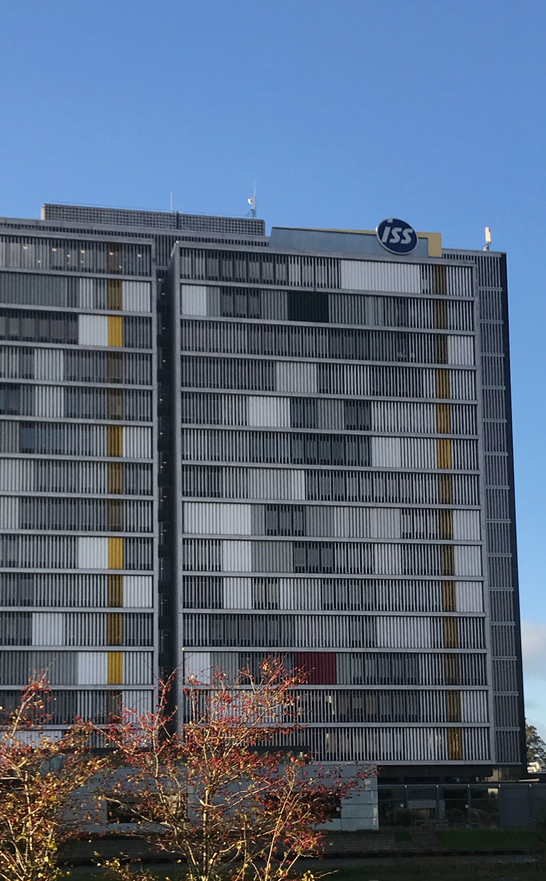 ISS corporate headquarters in Mørkhøj, Gladsaxe a few miles North West of Copenhagen